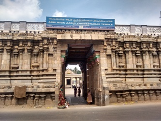 Kumbakonam Kumbeswarar temple கும்பகோணம் கும்பேஸ்வரர் கோயில்